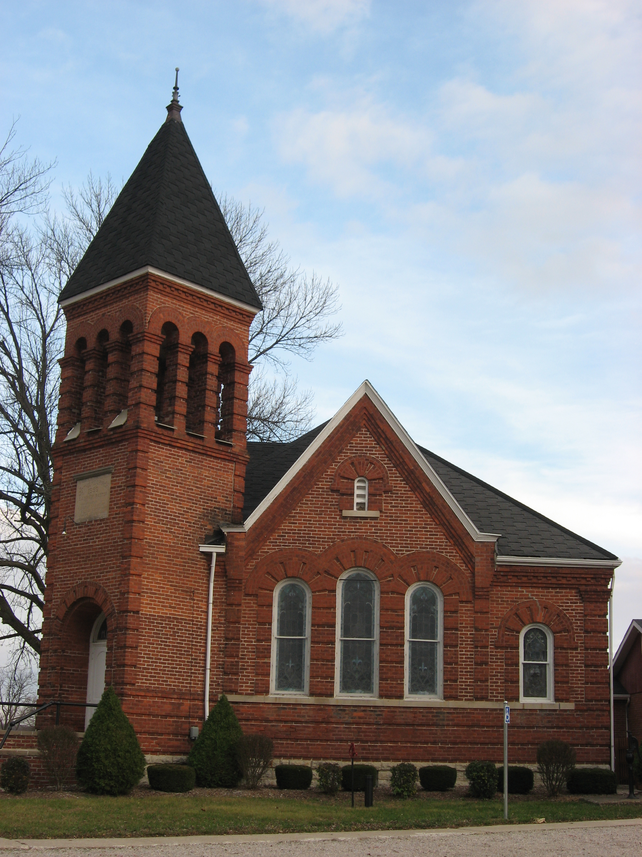 Western side of Bethel Methodist Episcopal Church, located on the southern side of the junction of S450E and E300S southeast of Bluffton in Harrison Township, Wells County, Indiana, United States. Built in 1900, it is listed on the National Register of Historic Places.